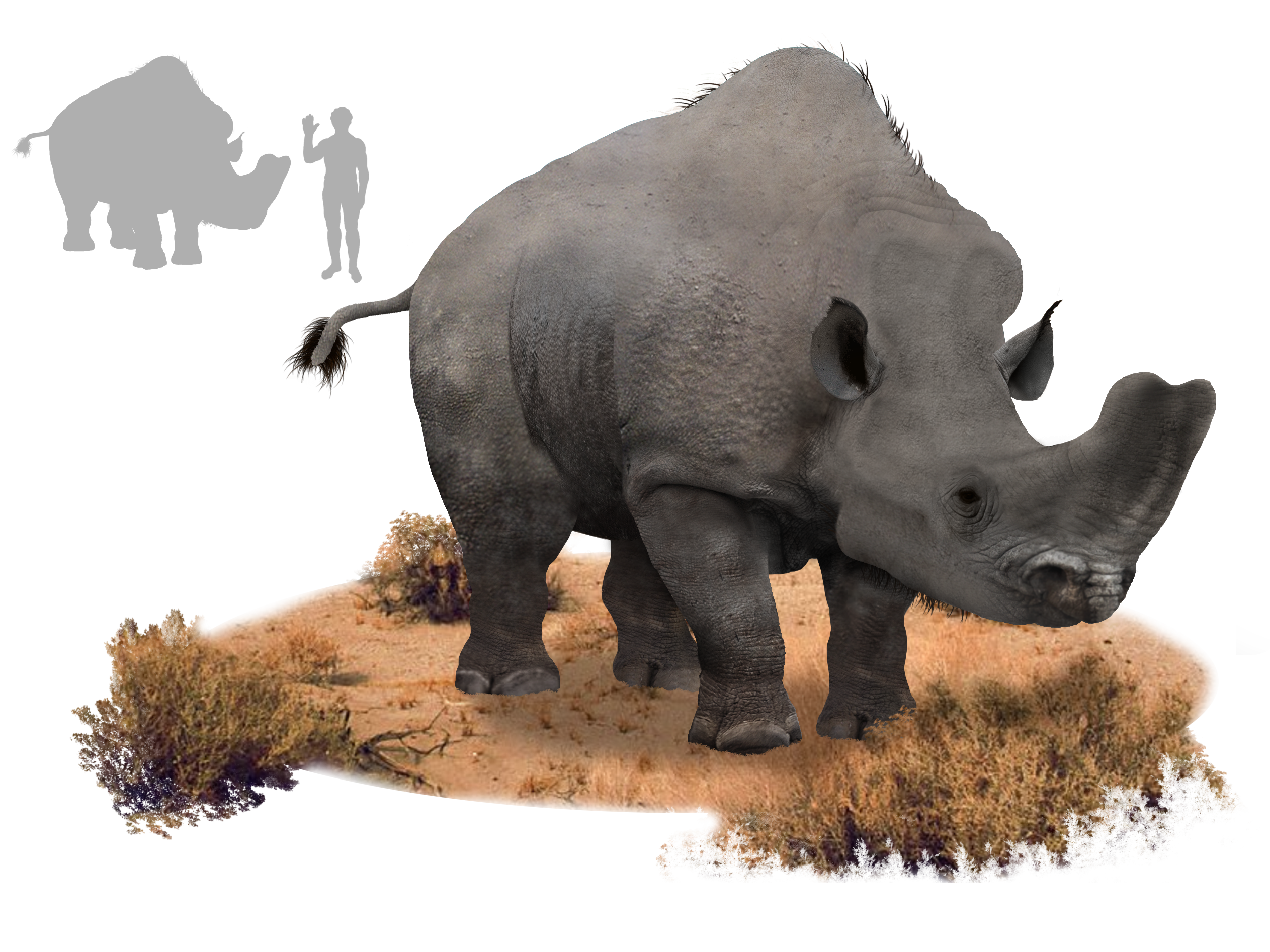 Artist's impression of an Embolotherium andrewsi.